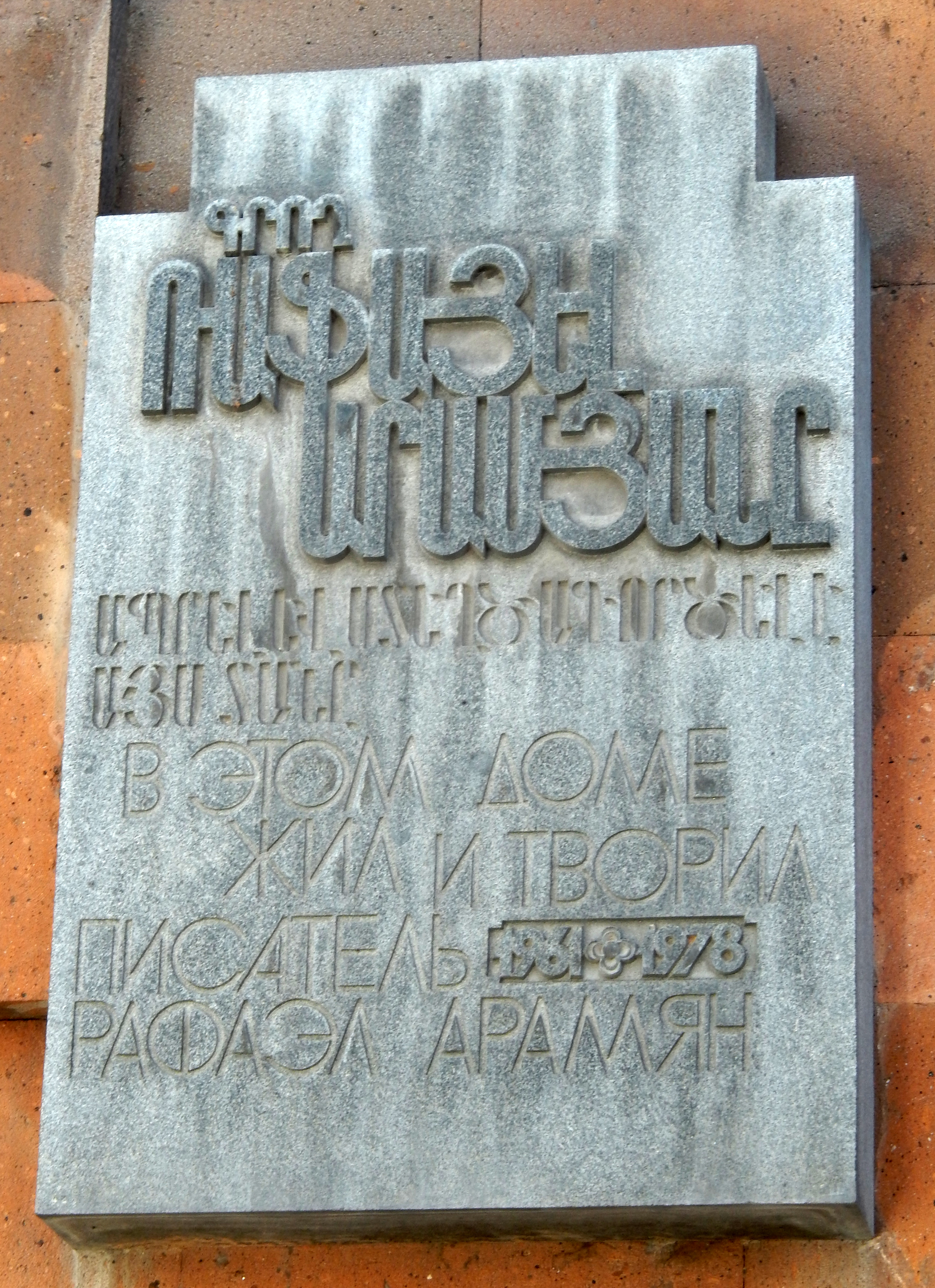 Rafayel Aramyan's plaque, in Yerevan